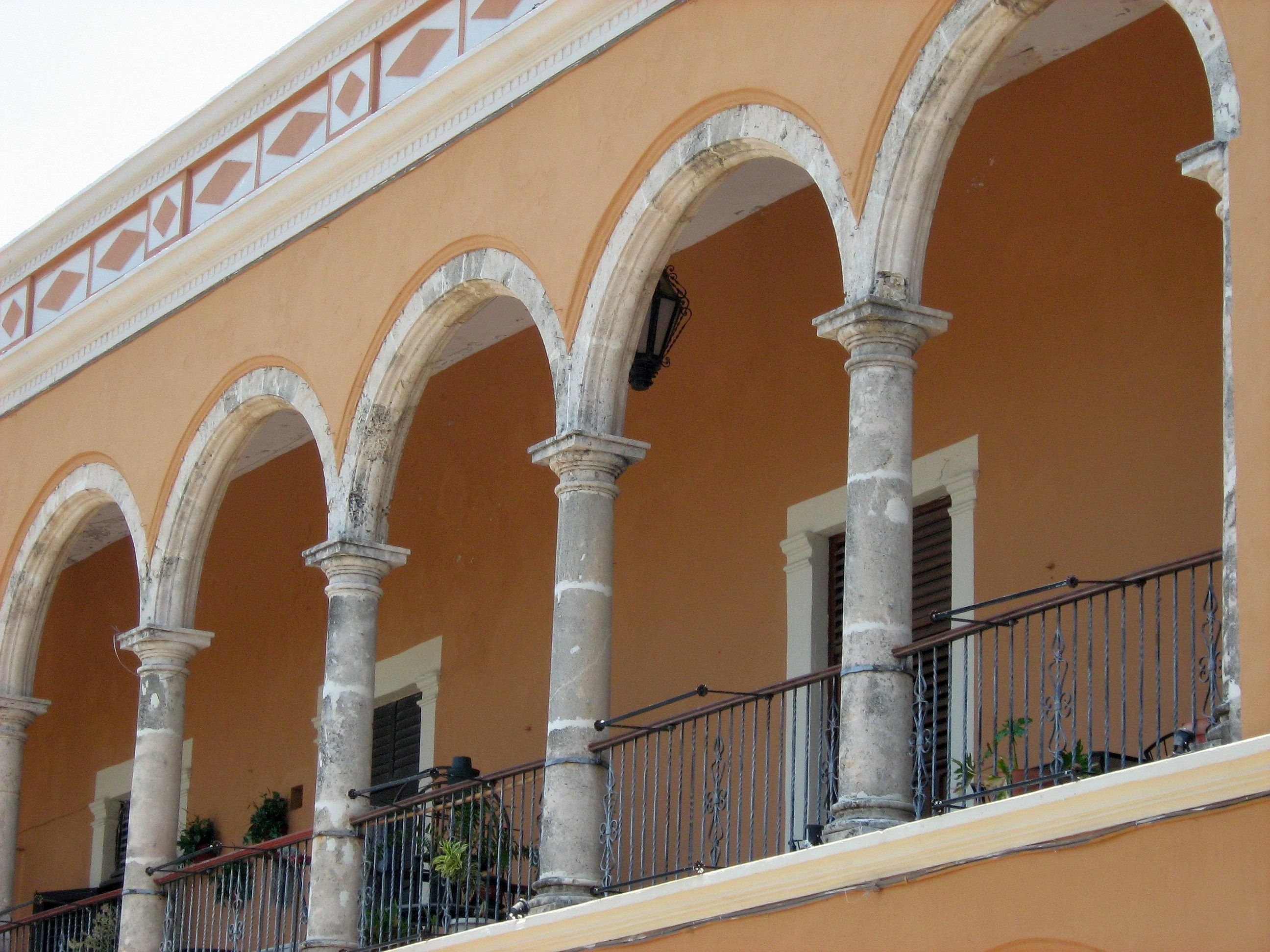 Arches in old San Francisco de Campeche — Campeche, Mexico.